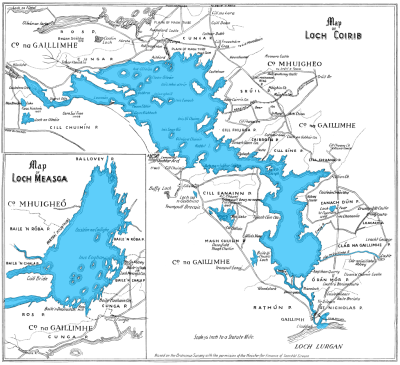 Thumbnail of a map of Lough Corrib. From William R. Wildes book on Lough Corrib (now out of copyright)